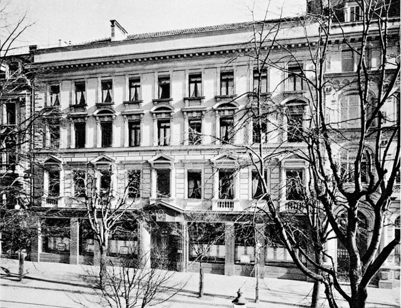 Original Zurich branch of the Swiss Banking Association (later Union Bank of Switzerland) at Bahnhofstrasse 44